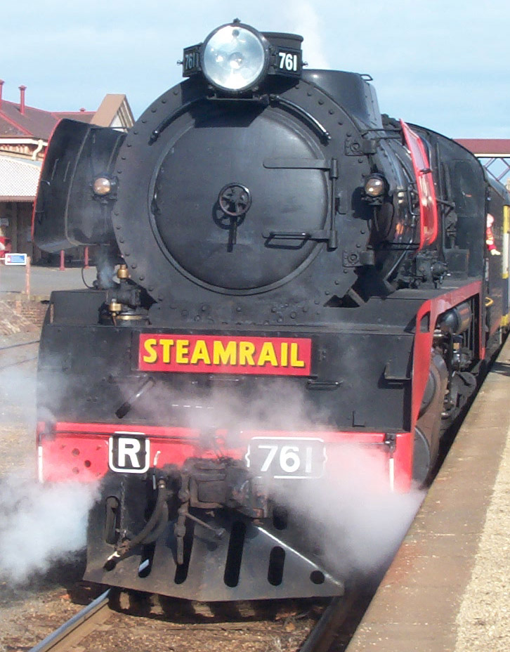 Preserved Victorian Railways R class locomotive R 761 awaits departure from Bendigo railway station, Victoria, 8th June, 2003 Zzrbiker 11:25, 24 December 2006 (UTC)